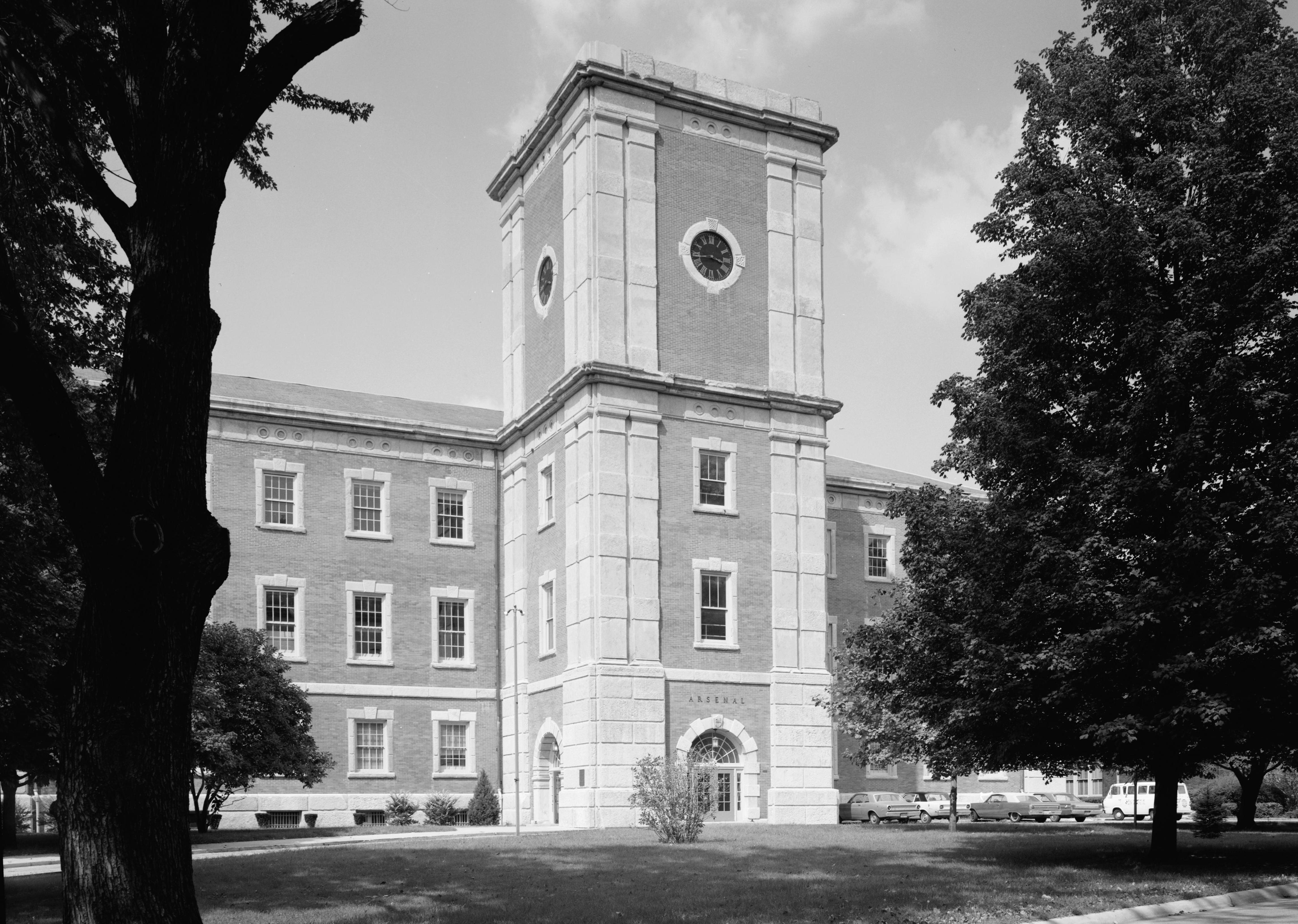 Front of the U.S. Arsenal (Arsenal Technical High School), located at 1500 E. Michigan Street in Indianapolis, Indiana, United States. Built in 1863 as a Civil War arsenal and since converted to a high school, it is listed on the National Register of Historic Places.